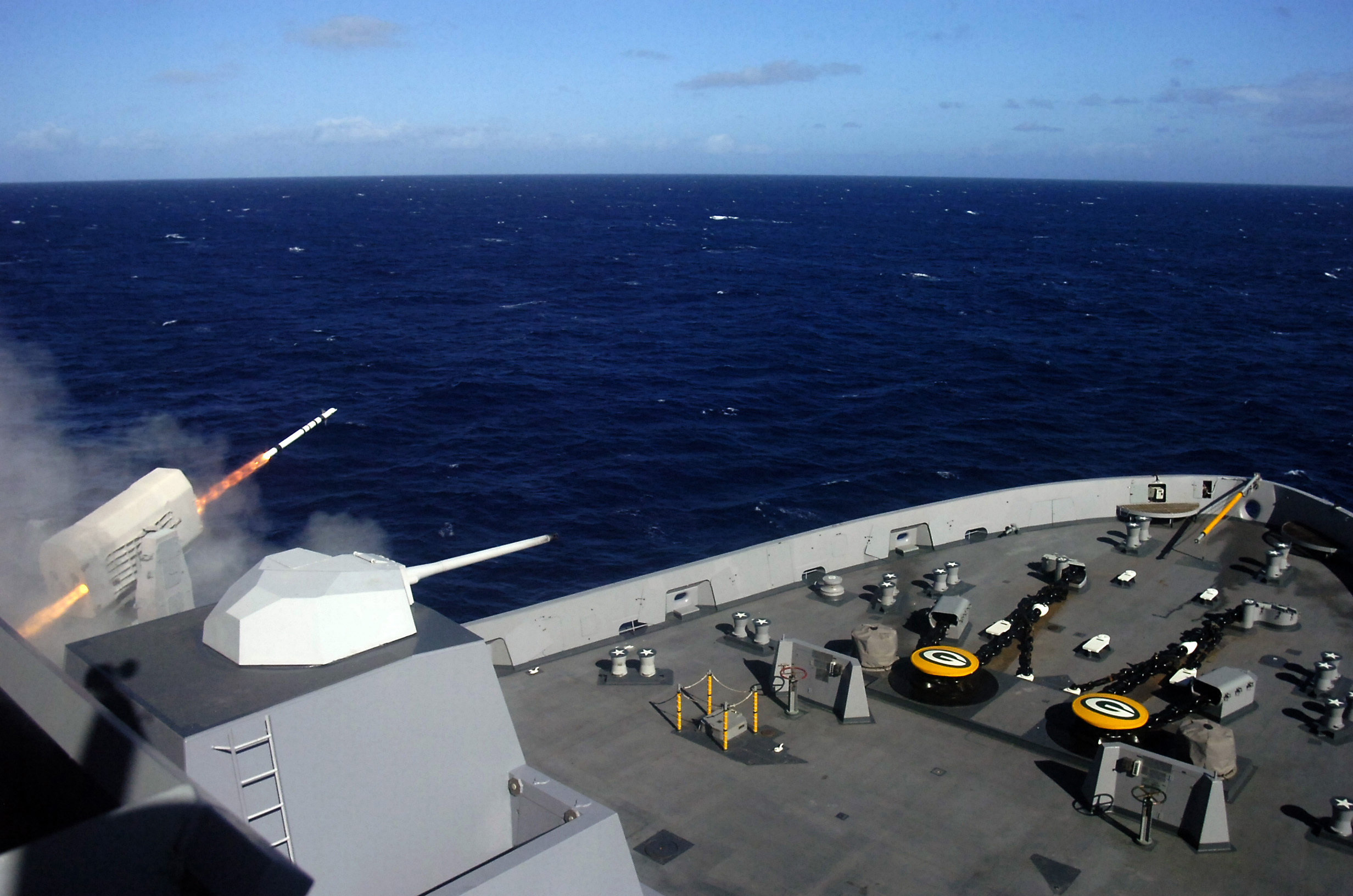 PACIFIC OCEAN (Sept. 29, 2009) The amphibious transport dock ship USS Green Bay (LPD 20) fires a surface-to-air intercept missile from the Rolling Airframe Missile (RAM) launcher during Combat System Ship Qualification Trials off the coast of Hawaii. The trials are a series of underway tests to evaluate Green Bay's combat readiness. (U.S. Navy photo by Mass Communication Specialist 1st Class Larry S. Carlson/Released)